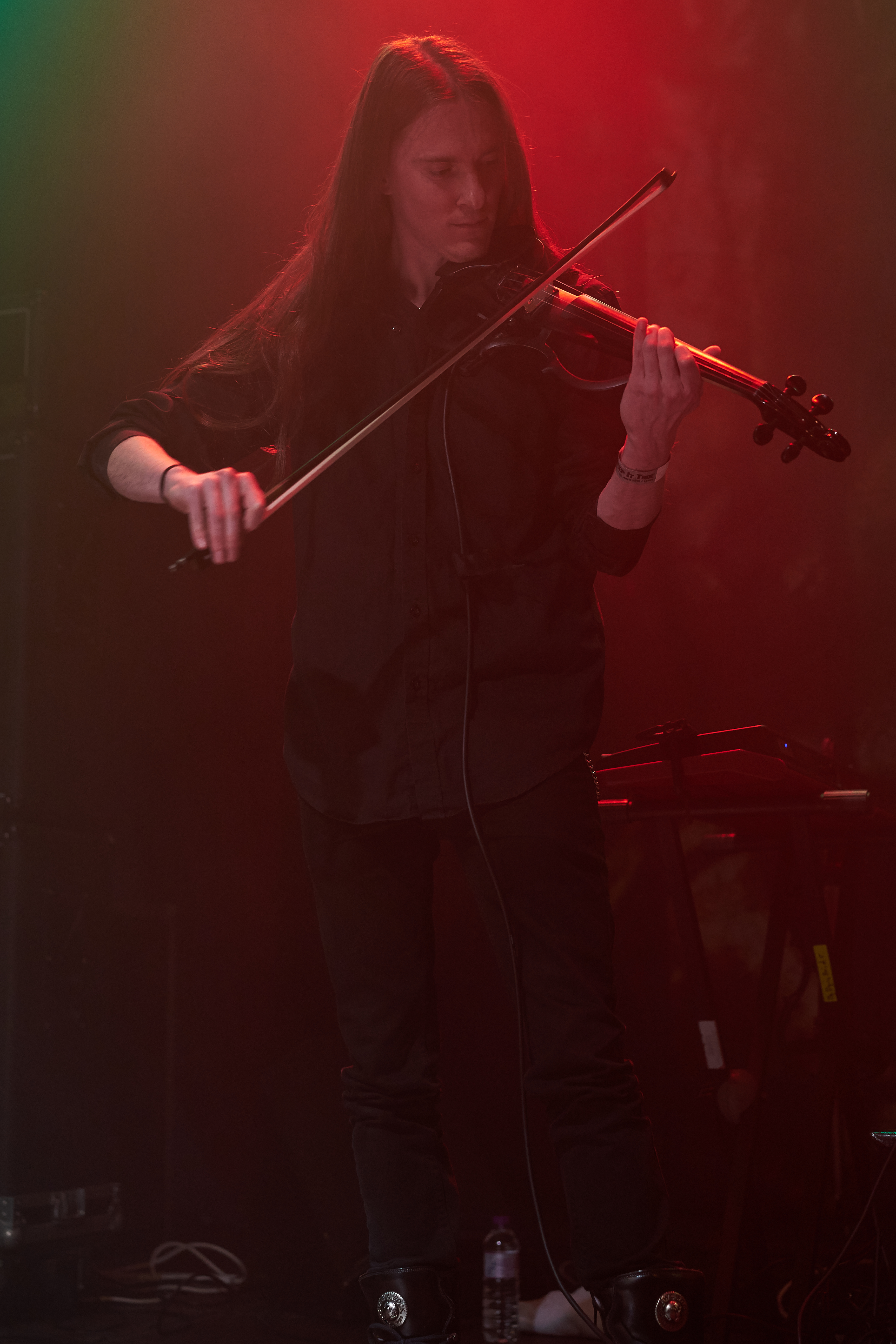 British band My Dying Bride at Hammer of Doom Festival, Würzburg, Posthalle, 21.11.2015 Festivalsommer This photo was created with the support of donations to Wikimedia Deutschland in the context of the CPB project "Festival Summer". Personality rights warning Although this work is freely licensed or in the public domain, the person(s) shown may have rights that legally restrict certain re-uses unless those depicted consent to such uses. In these cases, a model release or other evidence of consent could protect you from infringement claims.